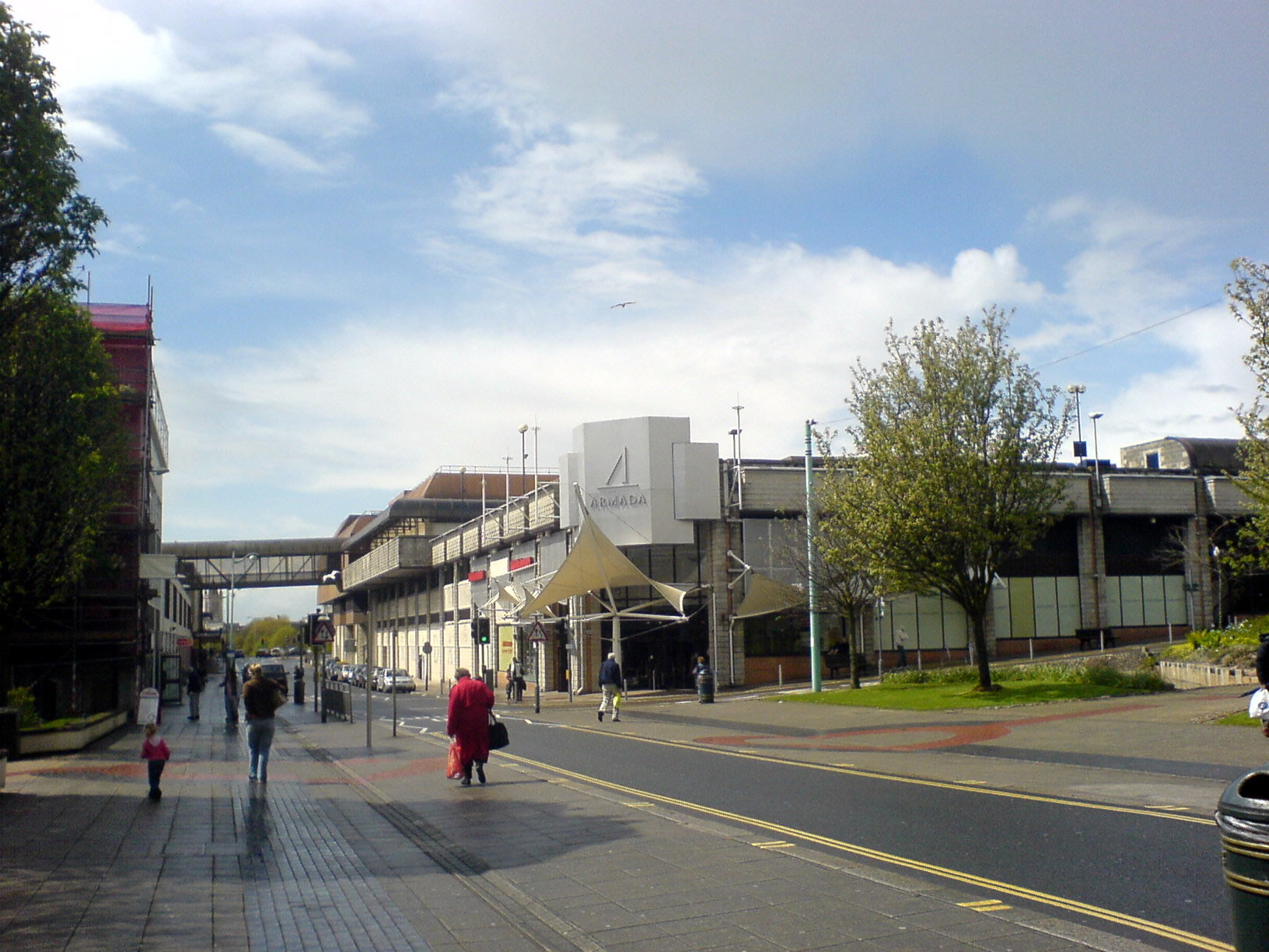 A picture of the Armada Centre in Plymouth, England taken on a rainy Thursday afternoon.